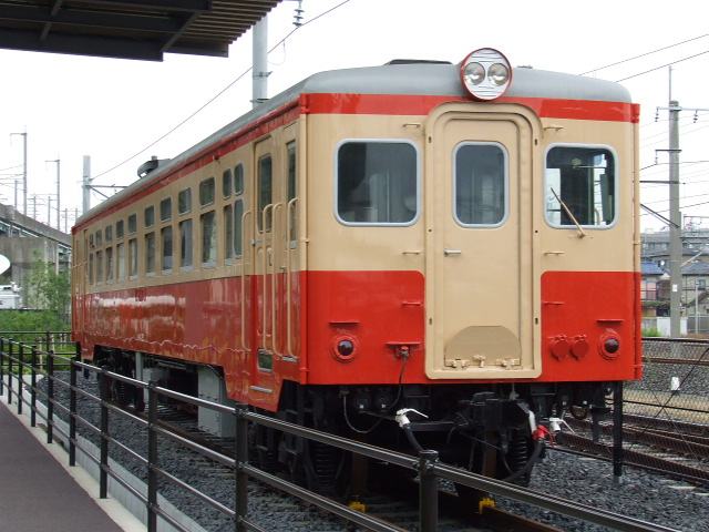 Preserved JNR KiHa 11 DMU KiHa 11-25 at the Railway Museum in Saitama, Saitama, Japan